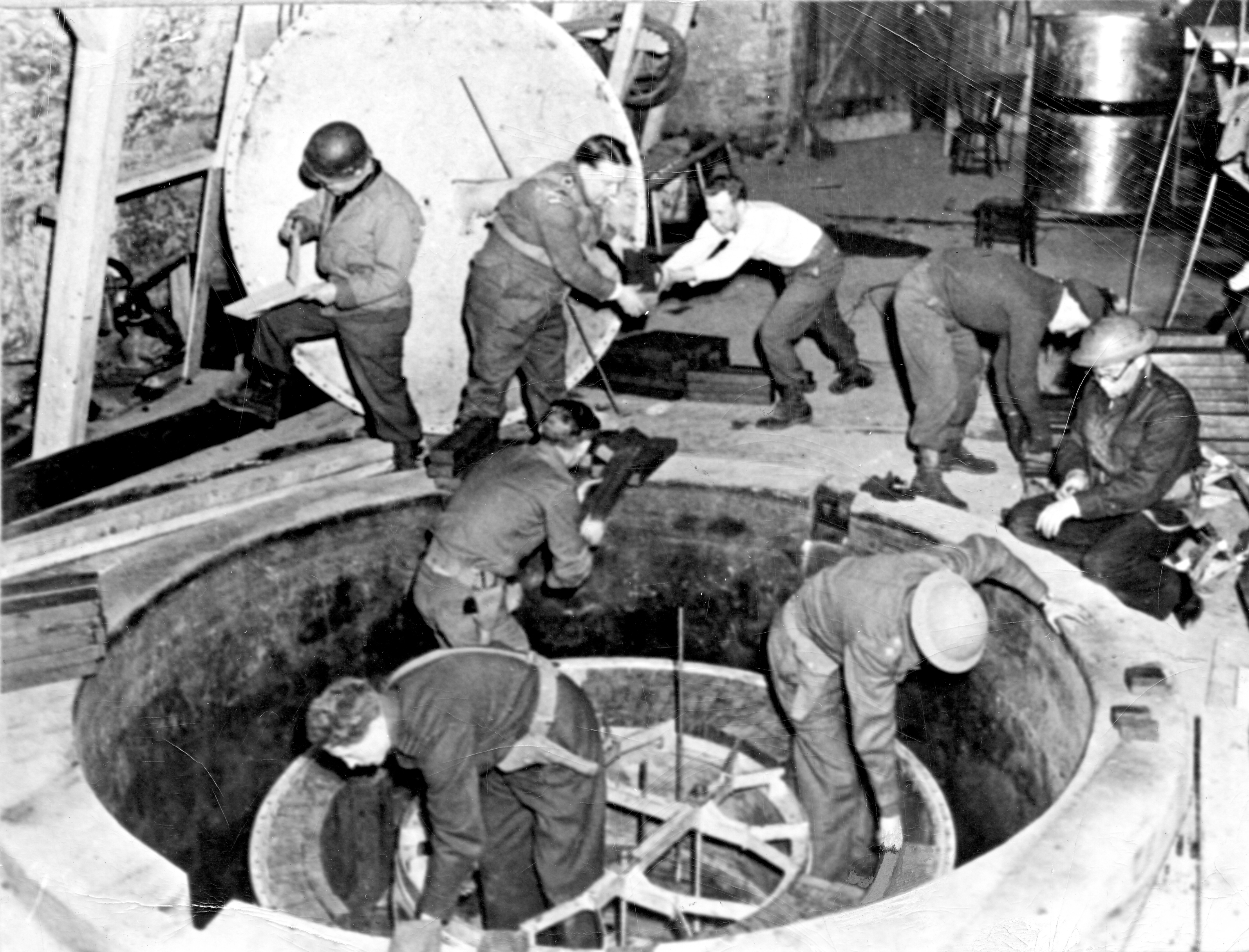 German Experimental Pile - Haigerloch - April 1945 The original caption reads: Dismantling the German experimental nuclear pile at Haigerloch, 50 km S.W of Stuttgart, April 1945. Rupert Cecil nearest camera, 'Bimbo' Norman* extreme right, Eric Welsh standing on outer rim, the second man behind Cecil * Professor Frederick Norman, University of London David Irving - picture scanned by me Ian Dunster from: Most Secret War by R. V. Jones - Coronet - 1981 - ISBN 0-340-24169-1 - Plate 30 between pages 396 and 397 - and credited to ... courtesy David Irving Caption in Goudsmit, Alsos (pp. 174-175) reads: Alsos team dismantling "uranium machine" in cave at Haigerloch. Uranium cubes are in the center, surrounded by graphite. Pitching in are Lansdale and Welch (top left center), Cecil and Perrin (bottom center) and Rothwell (right, kneeling). Coutersy Brookhaven National laboratory, Emilio Segrè Visual Archives, Goudsmit Collection